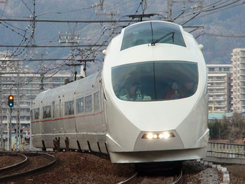 Odakyu Electric Railway Company, EMU Type 50000